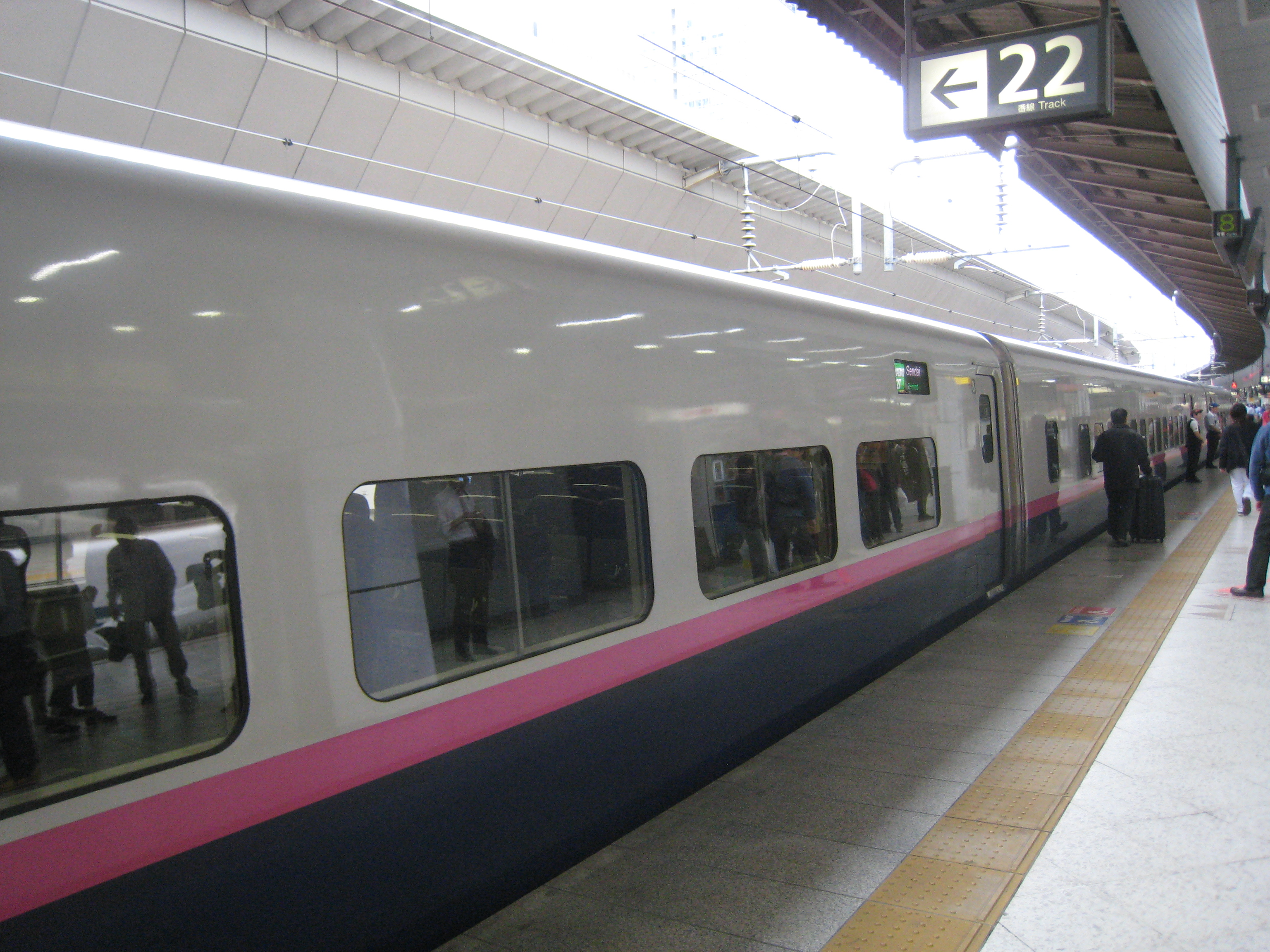 A passanger's view of Shinkansen coaches